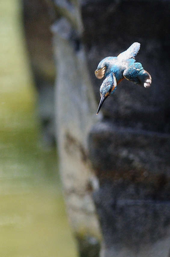 Common Kingfisher (also known as Eurasian Kingfisher) diving.